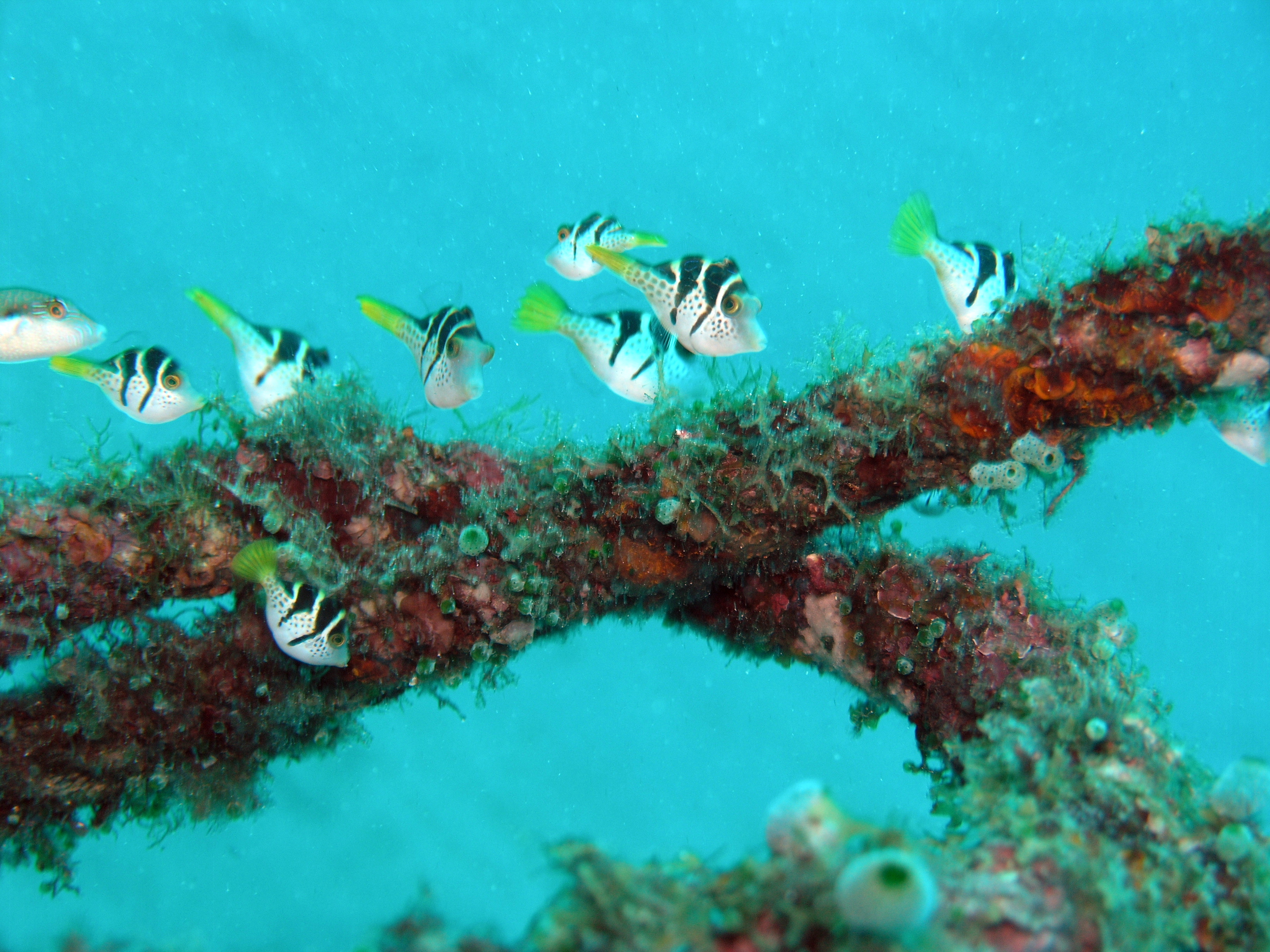 Picture of Blacksaddle filefish. Paraluteres prionurus. Taken at Tasik Ria, Manado, Indonesia.